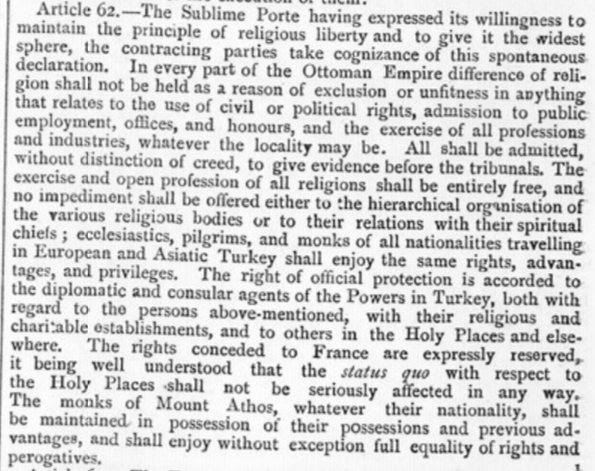 Treaty of Berlin Article 62 Status Quo The Sublime Porte having expressed its willingness to maintain the principle of religious liberty and to give it the widest sphere, the contracting parties take cognizance of this spontaneous declaration. In every part of the Ottoman Empire difference of wall. gion shall not be held as a reason of exclusion or unfitness in anything that relates to the use of civil or political rights, admission to public employment, offices, and honours, and the exercise of all professions and industries, whatever the locality may be. All shall be admitted, without distinction of creed, to give evidence before the tribunals. The exercise and open profession of all religions shall be entirely free, and no impediment shall be offered either to the hierarchical organisation of the various religious bodies or to their relations with their spiritual chiefs ; ecclesiastics, pilgrims, and monks of all nationalities travelling in Europeaa and Asiatic Turkey shall enjoy the same rights, advantages, and privileges. The right of official protection is accorded to the diplomatic and consular agents of the Powers in Turkey, both with regard to the persons above-mentioned, with their religious and charitable establishments, and to others in the Holy Places and elsewhere. The rights conceded to France are expressly reserved,. it being well understood that the status quo with respect to the Holy Places -shall not be seriously affected in any way. The monks of Mount Athos, whatever their nationality, shall be maintained, in possession of their possessions and previous advantages, and shall enjoy without exception full equality of rights and perogatives.